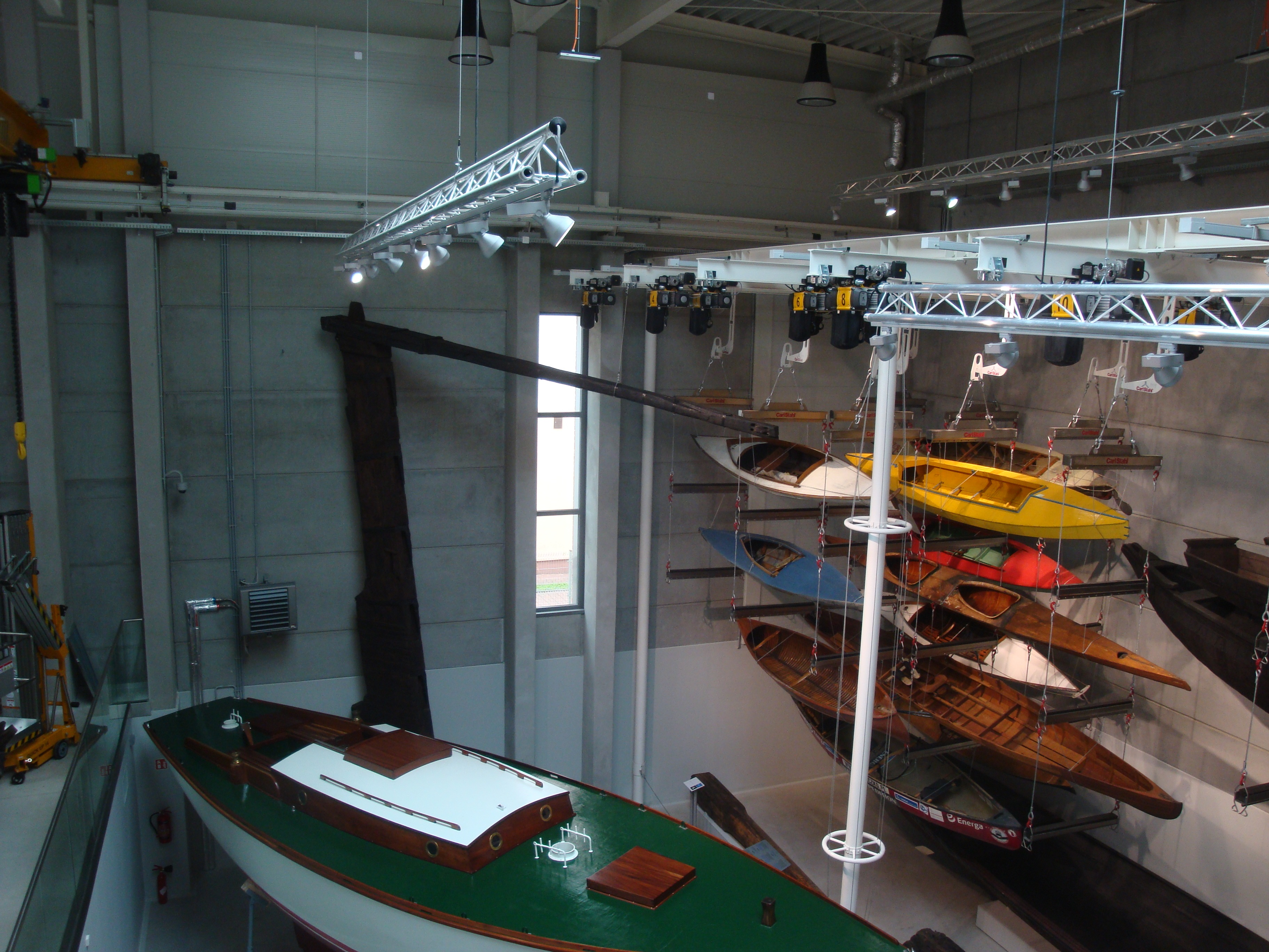 Boats exhibited in Shipwreck Conservation Centre in Tczew (Centrum Konserwacji Wraków Statków). Shipwreck Conservation Centre in Tczew is branch of National Maritime Museum in Gdańsk, Poland. With green deck - yacht "Opty", in background - rudder from wreck of "General Carleton